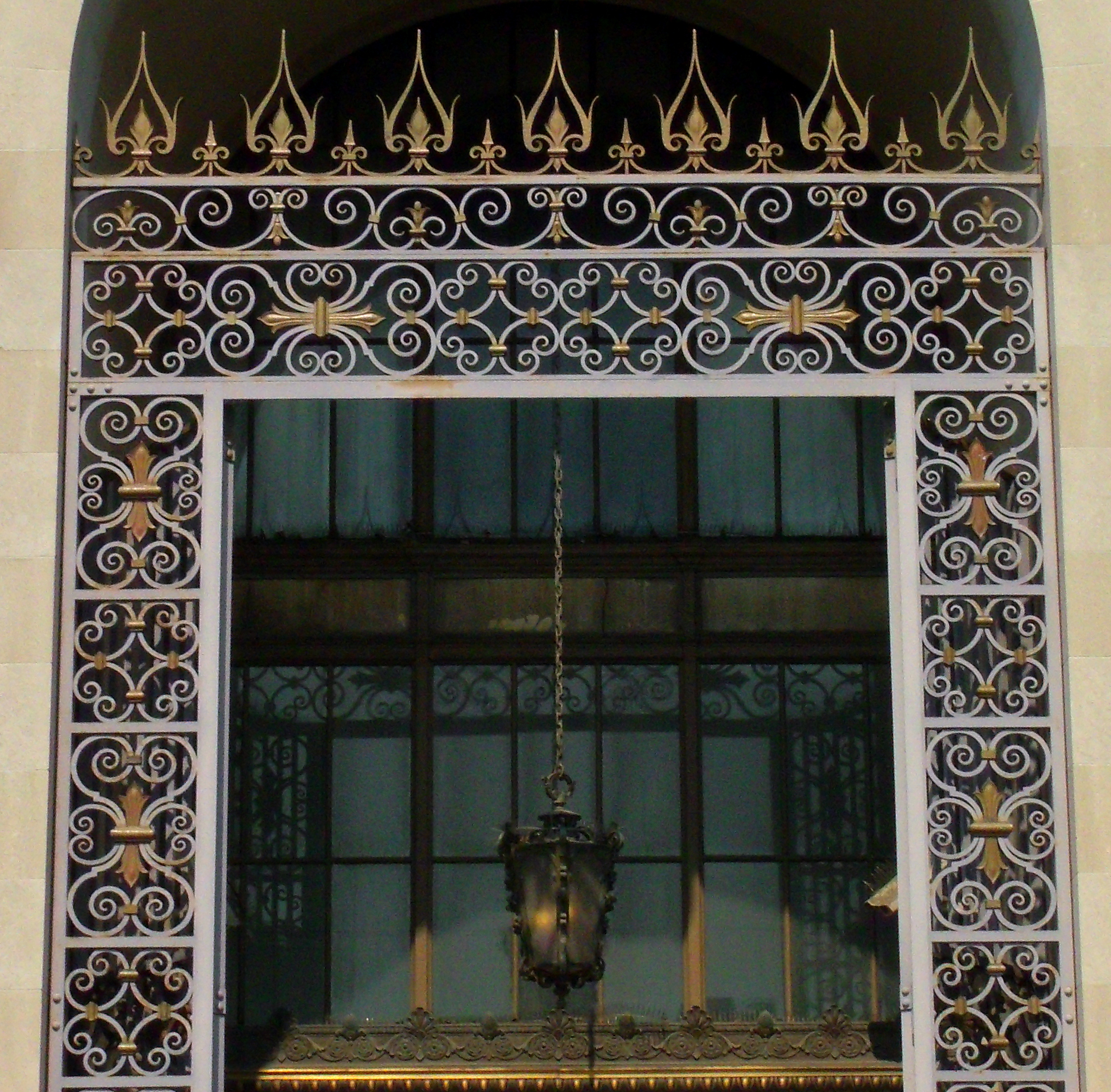 Detail of grillework at the east entrance of the Citizen's and Manufacturer's Bank entrance on Leavenworth Street in Waterbury, Connecticut, designed by architect Henry Bacon.